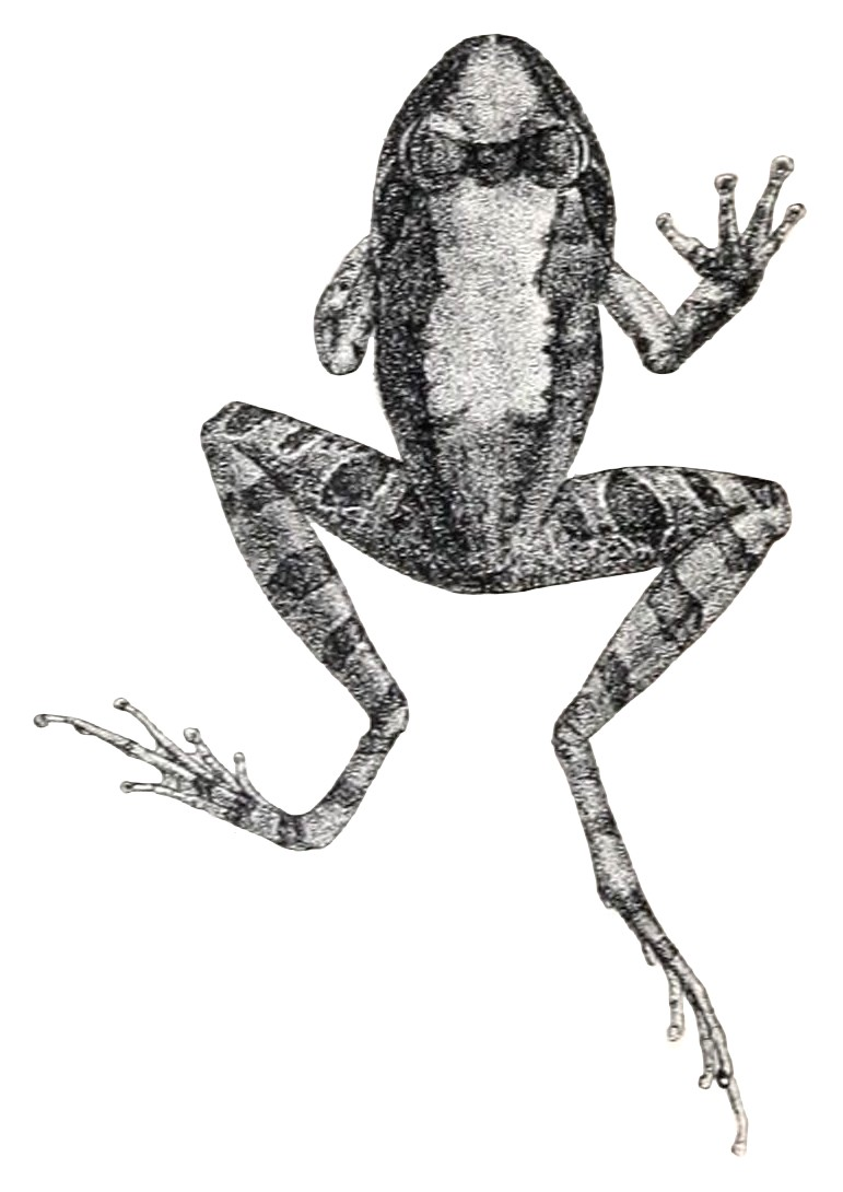 Rana semipalmata = Indirana semipalmata